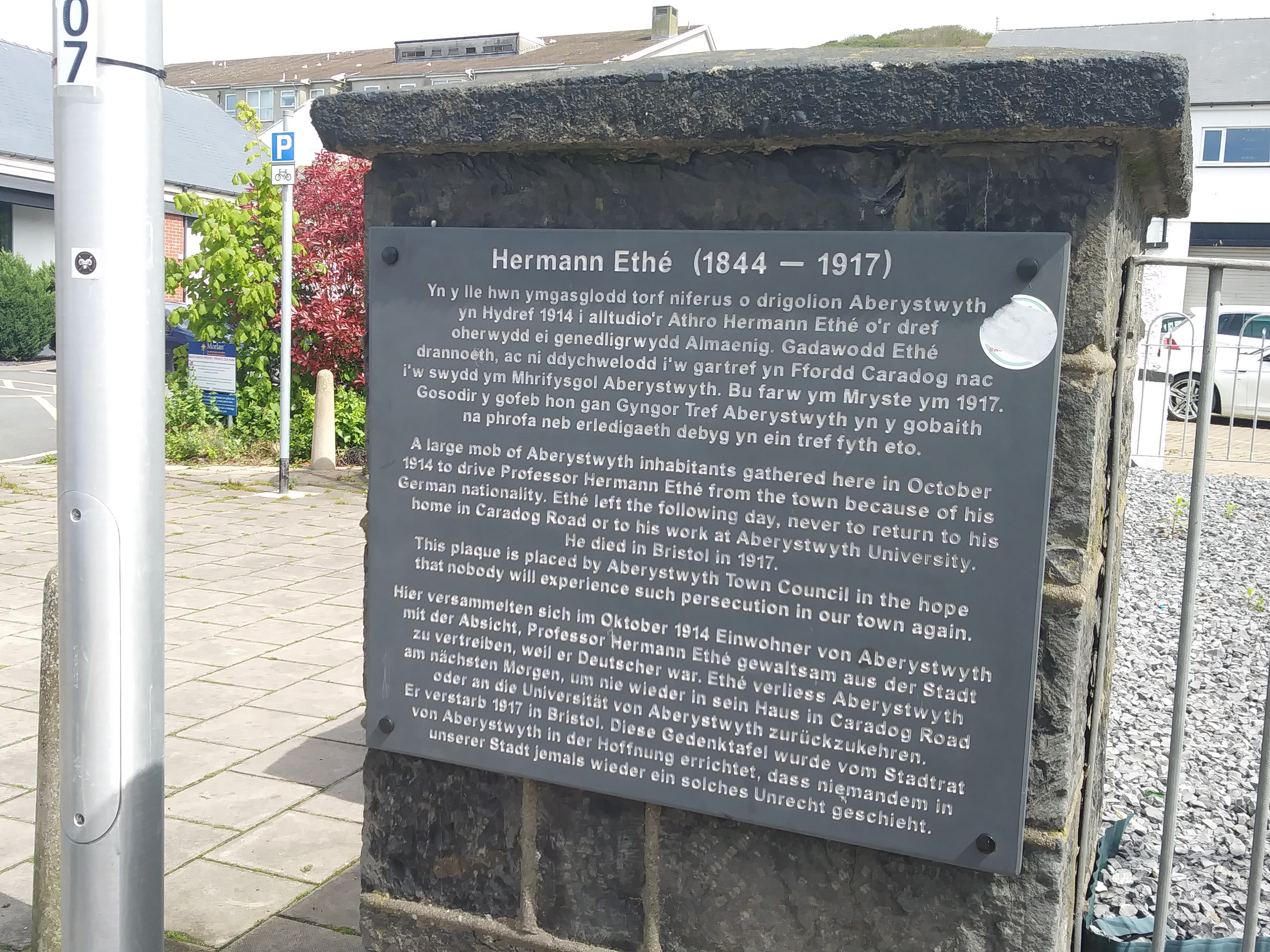 Herman Ethe, plac, Aberystwyth